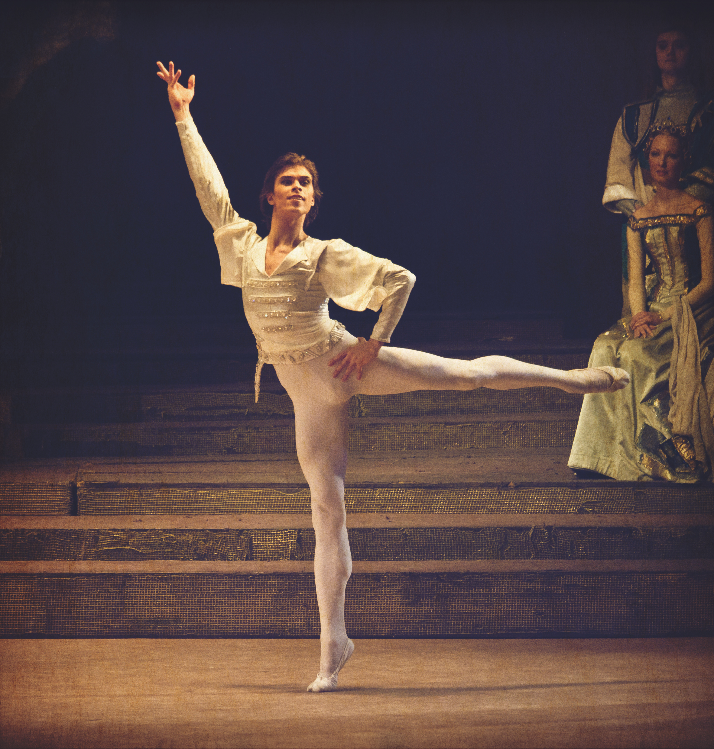 Artem Ovcharenko as Jean de Brienne Raymonda Bolshoi theater, 2011